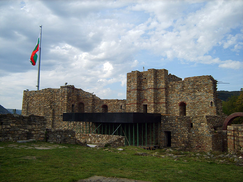 Made by User:Kandy from the BG Wikipedia